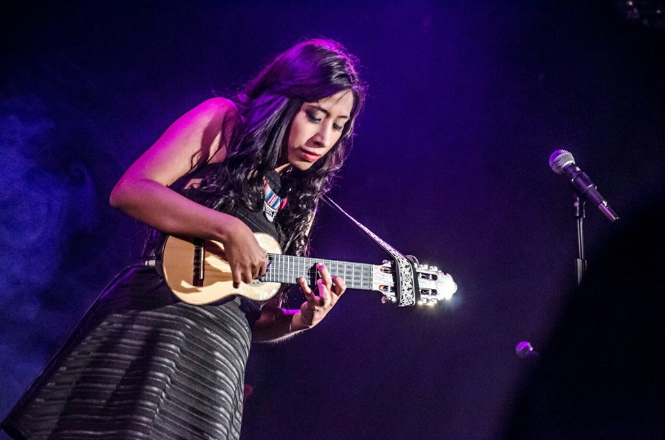 Luciel Izumi Foto por Gil Arduz